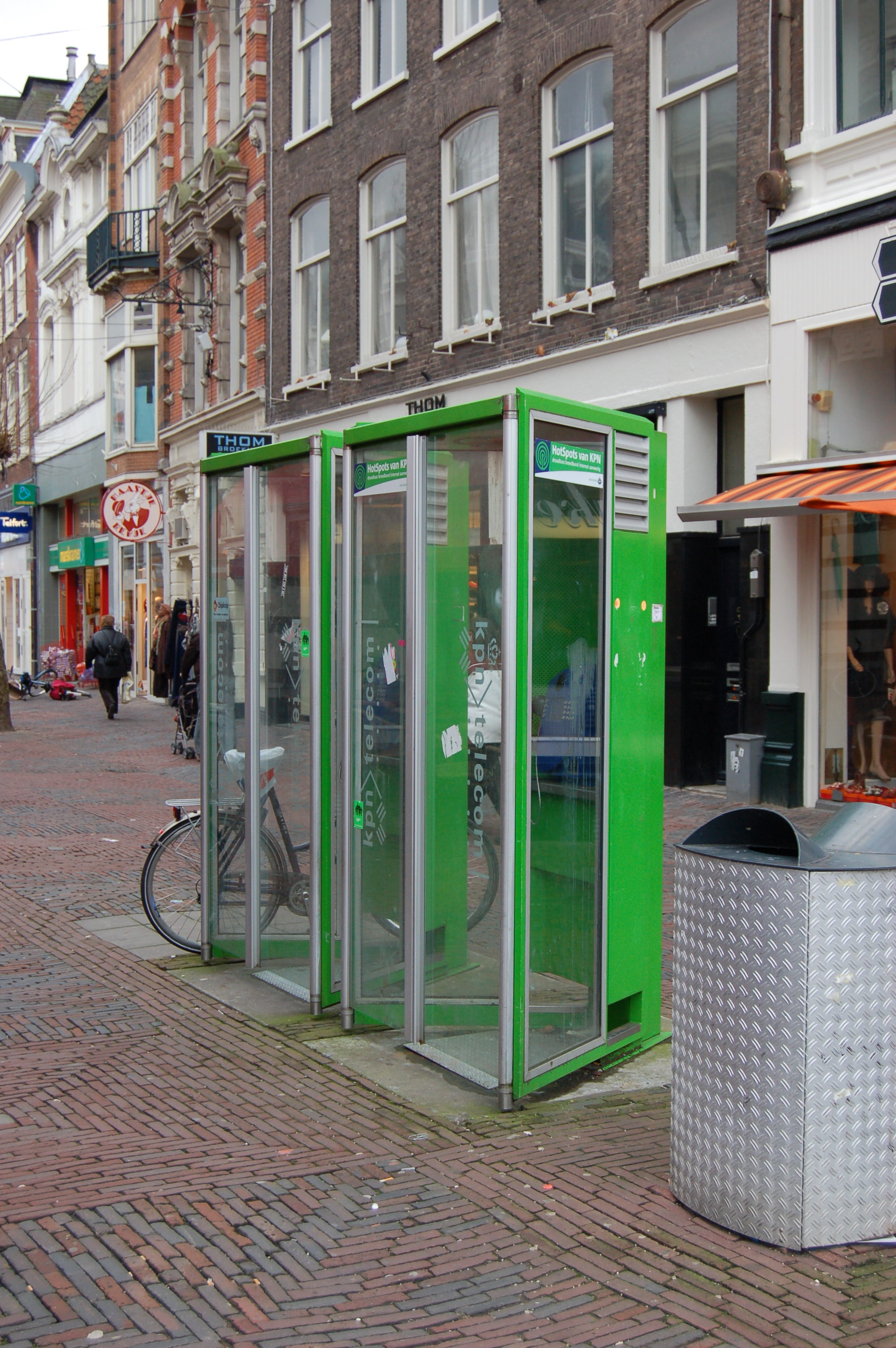 Telephonebooth in the Netherlands, city: Haarlem